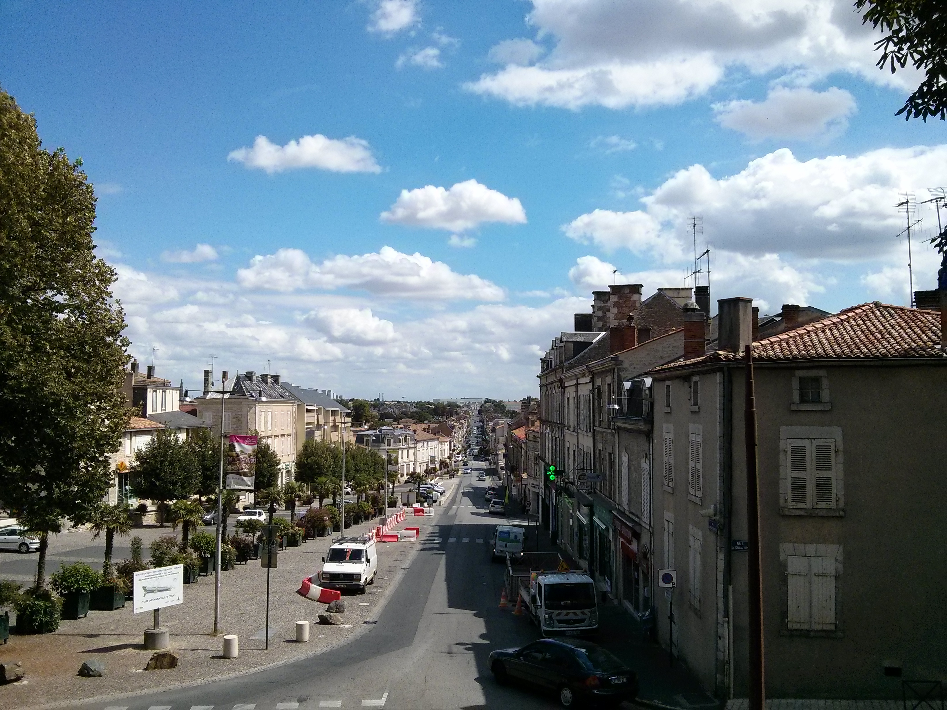 Fontenay-le-Comte scene. L'ancienne gare est à l'arrière plan à l'extrémité de la rue.